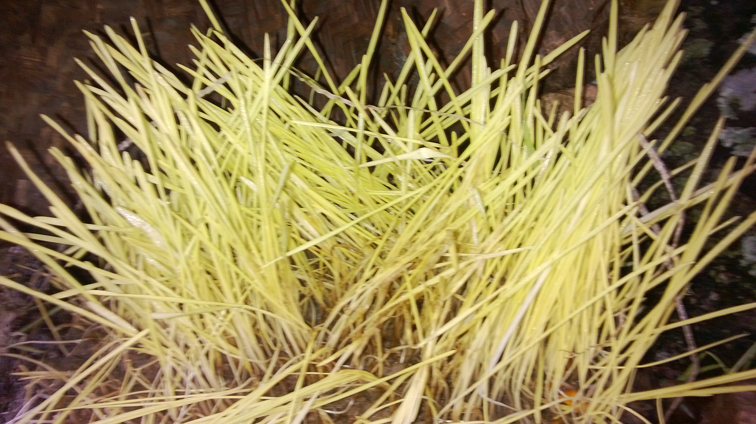 Jamara prepared for Dashain in Panchkhal Valley.